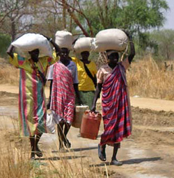 Women carrying supplies, Sudan